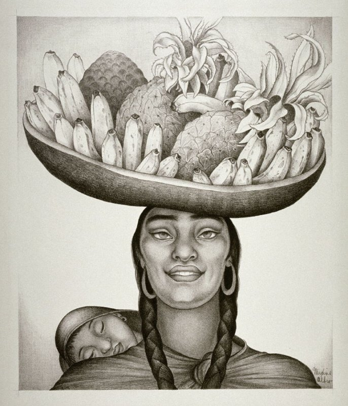 Mexico by Maxine Albro Artist: Maxine Albro, Date: ca. 1930–1933, Century: 20th Century AD, Media: Lithograph, Dimensions: 36.1 x 30.6 cm (image); 50.7 x 39 cm (sheet), Collection: Achenbach Foundation, Object Type: Print, Country: United States, Accession Number: 54140, Acquisition Date: 1933-03-10, Credit Line: Gift of Miss Maxine Albro Head and shoulders of smiling Mexican woman balancing large flat basket of bananas, pineapples, and one other; sleeping child’s head can be seen on her back.